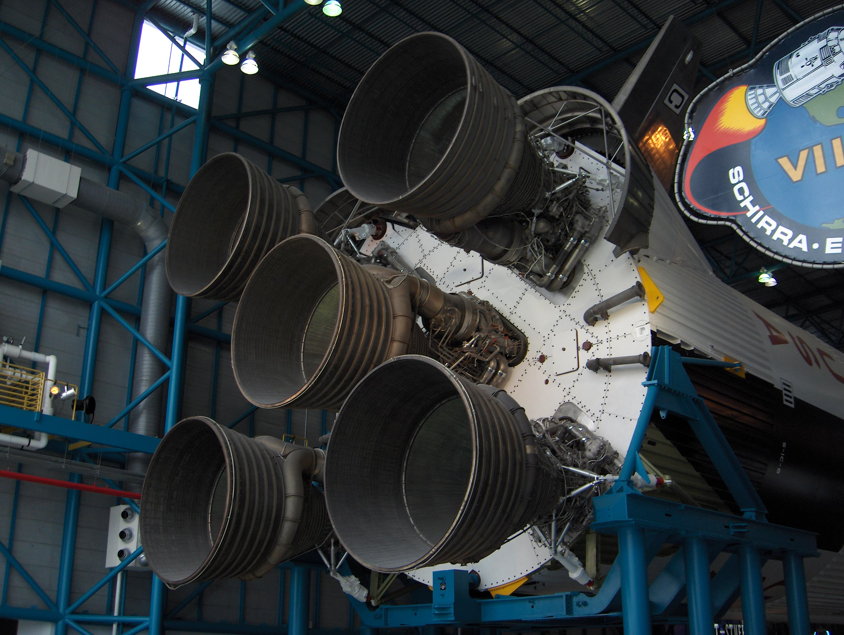 The engines of the Saturn V rocket, Kenndy Space Center, Florida.